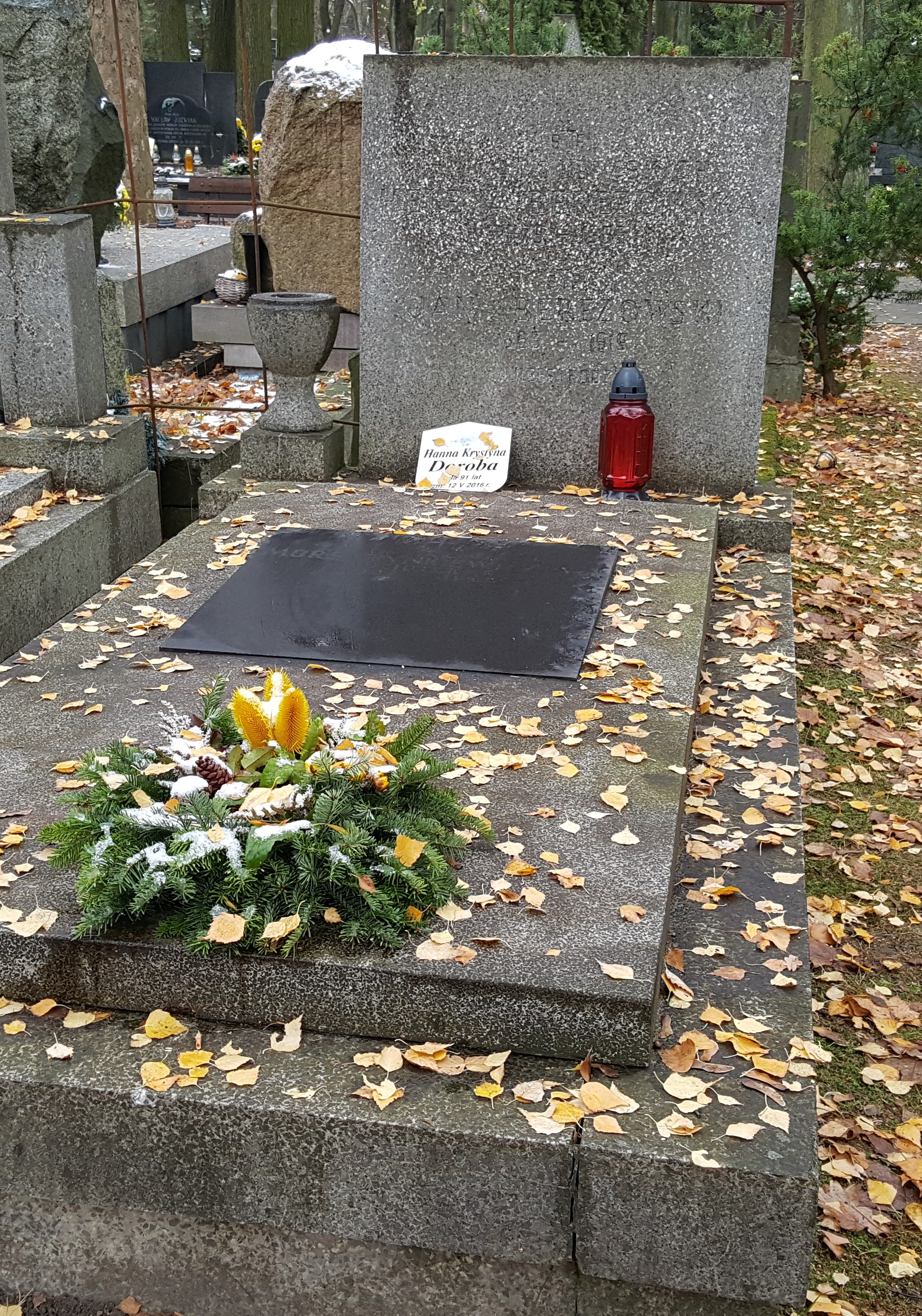 The tomb of Irena Morsztynkiewiczowa.